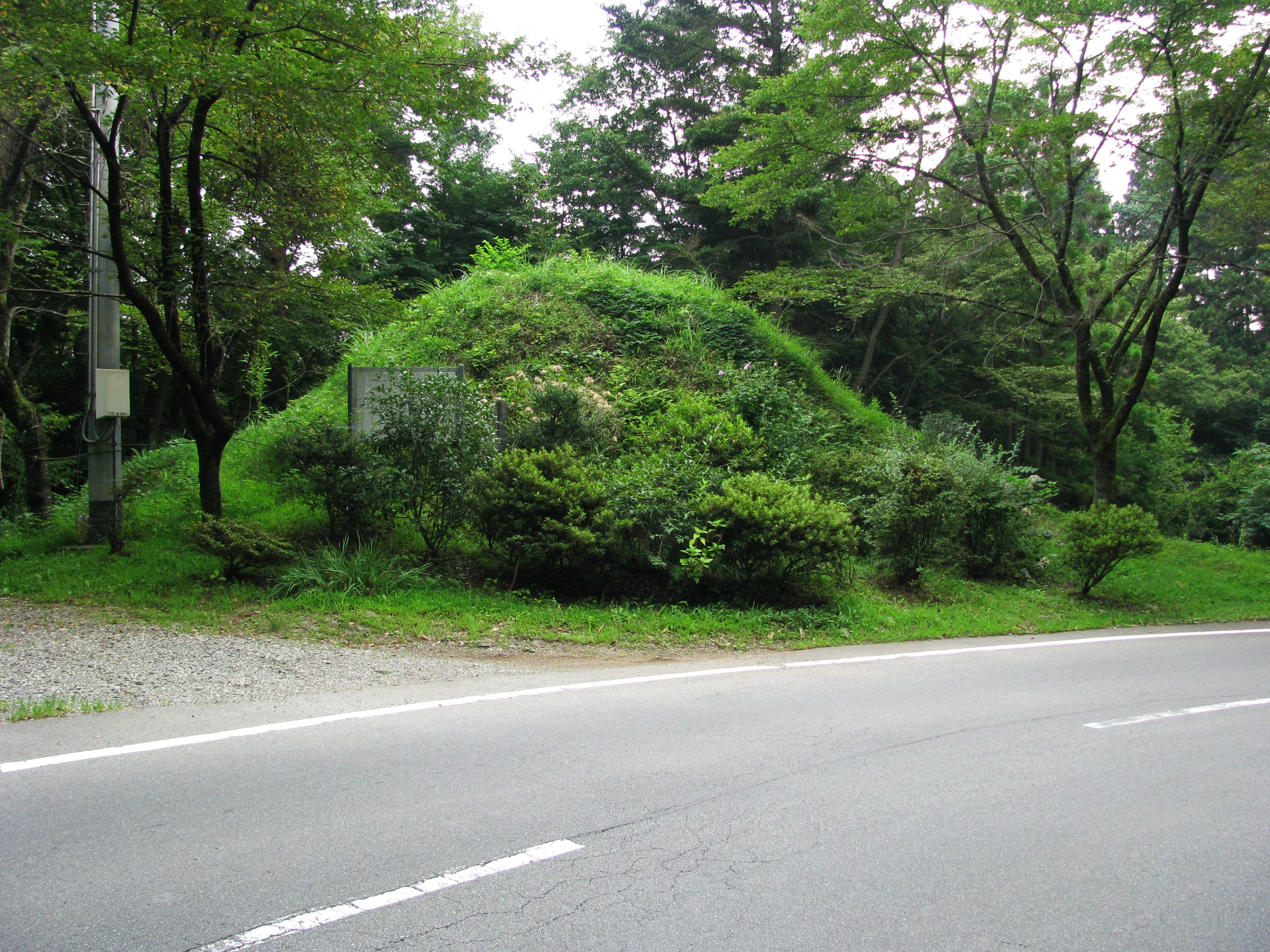 The Koizuka-Ichirizuka is a Milestone of Kōshū Kaidō. This location is Inume in Uenohara, Yamanashi Prefecture, Japan.